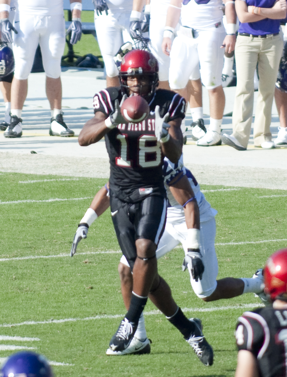 San Diego State wide receiver Roberto Wallace in a game against TCU in November 2009.